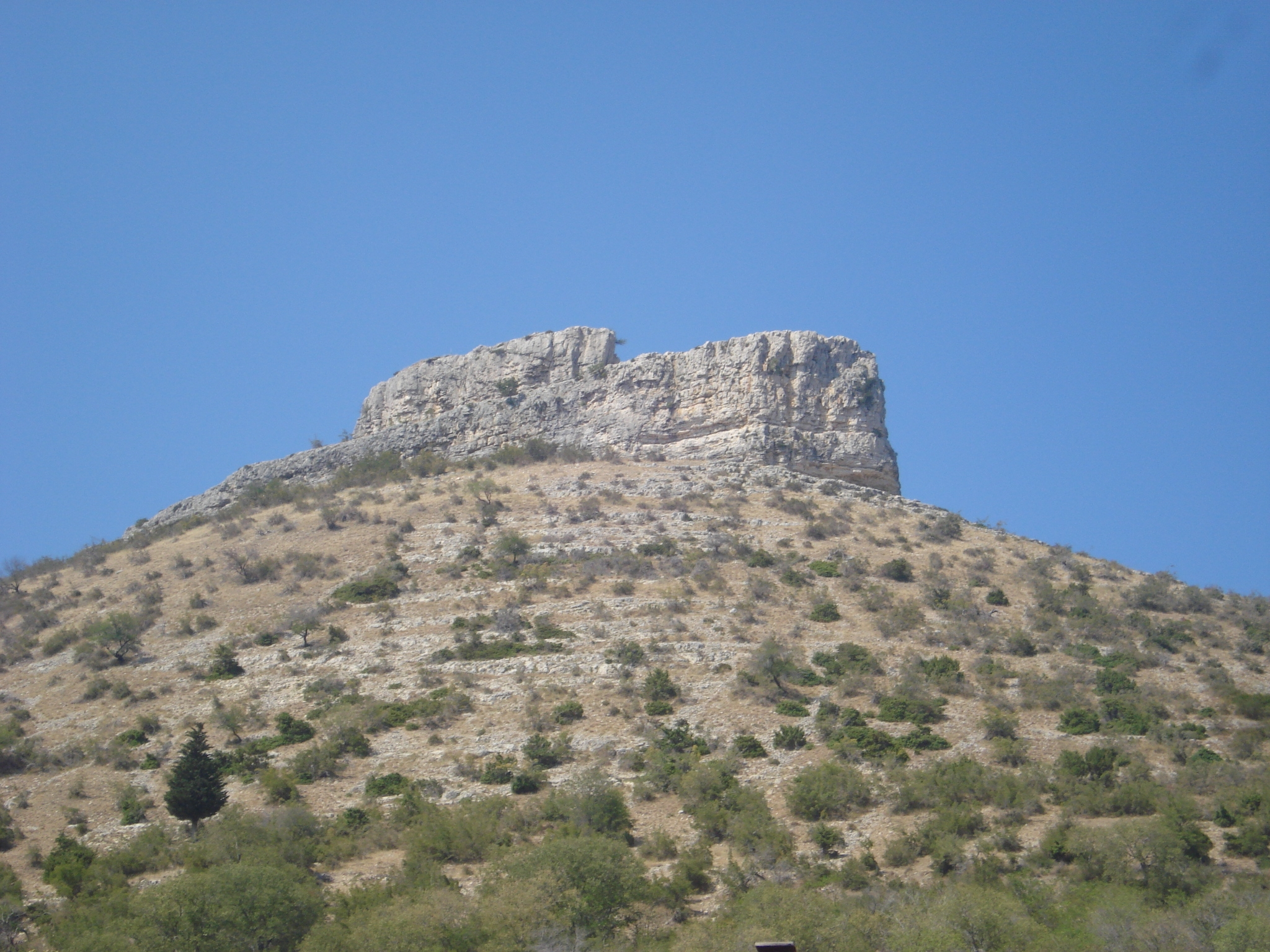 Ruins of Ostrovica Castle on a rock above the Ostrovica village, east of the town of Benkovac (southern Croatia) - south view